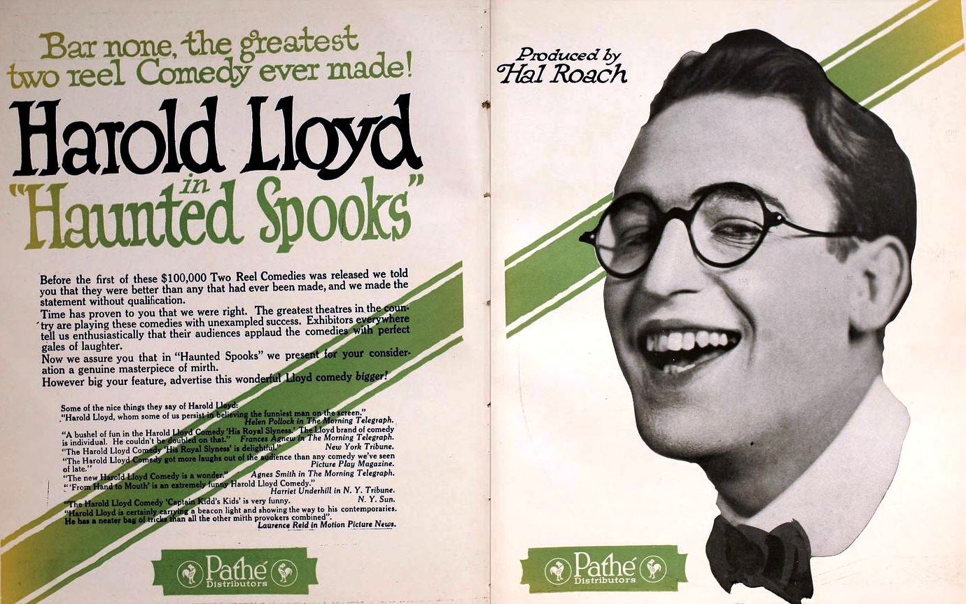 Ad for the American comedy short film Haunted Spooks (1920) with Harold Lloyd, on pages 2862 and 2863 of the March 27, 1920 Motion Picture News.